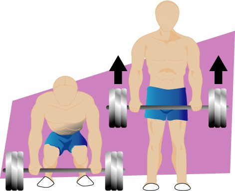 Luis Javier Rodriguez, made for wikipedia, might be found on a future at my website